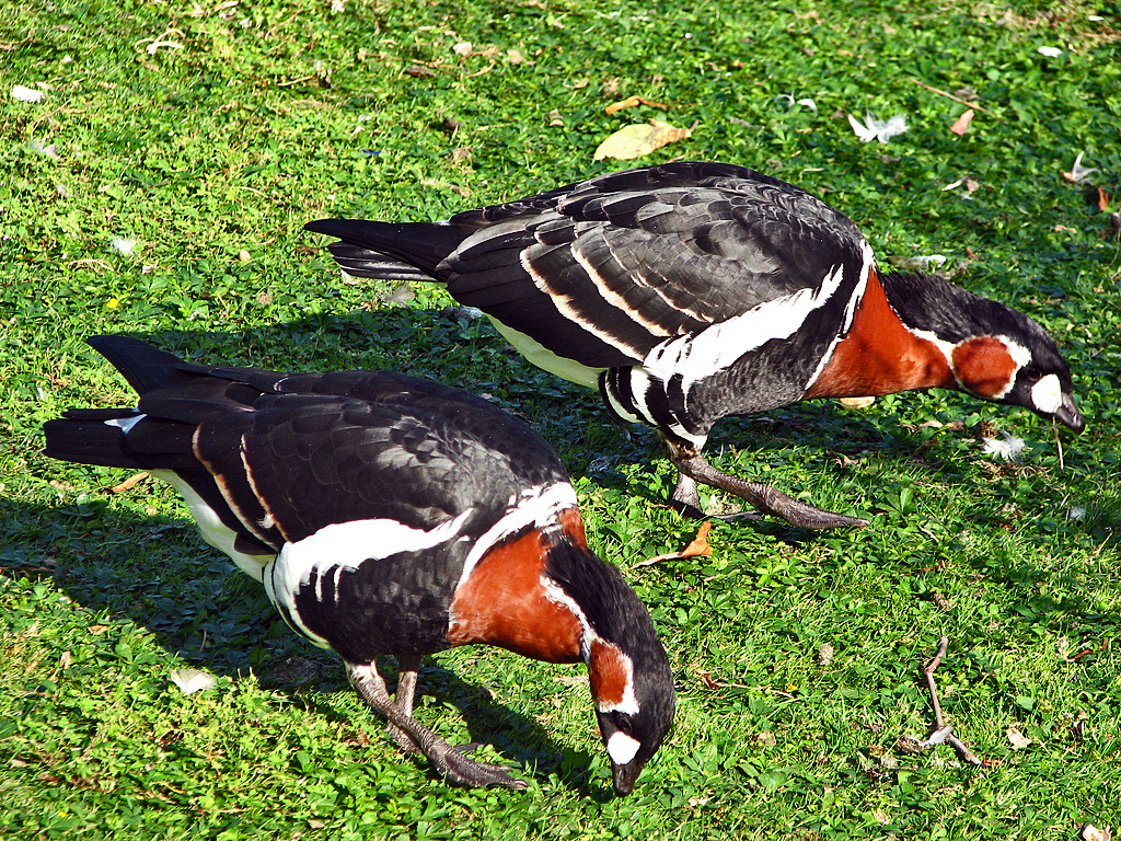 Branta ruficollis Location: St James Park, London, UK (Source for location data: Flickr page)